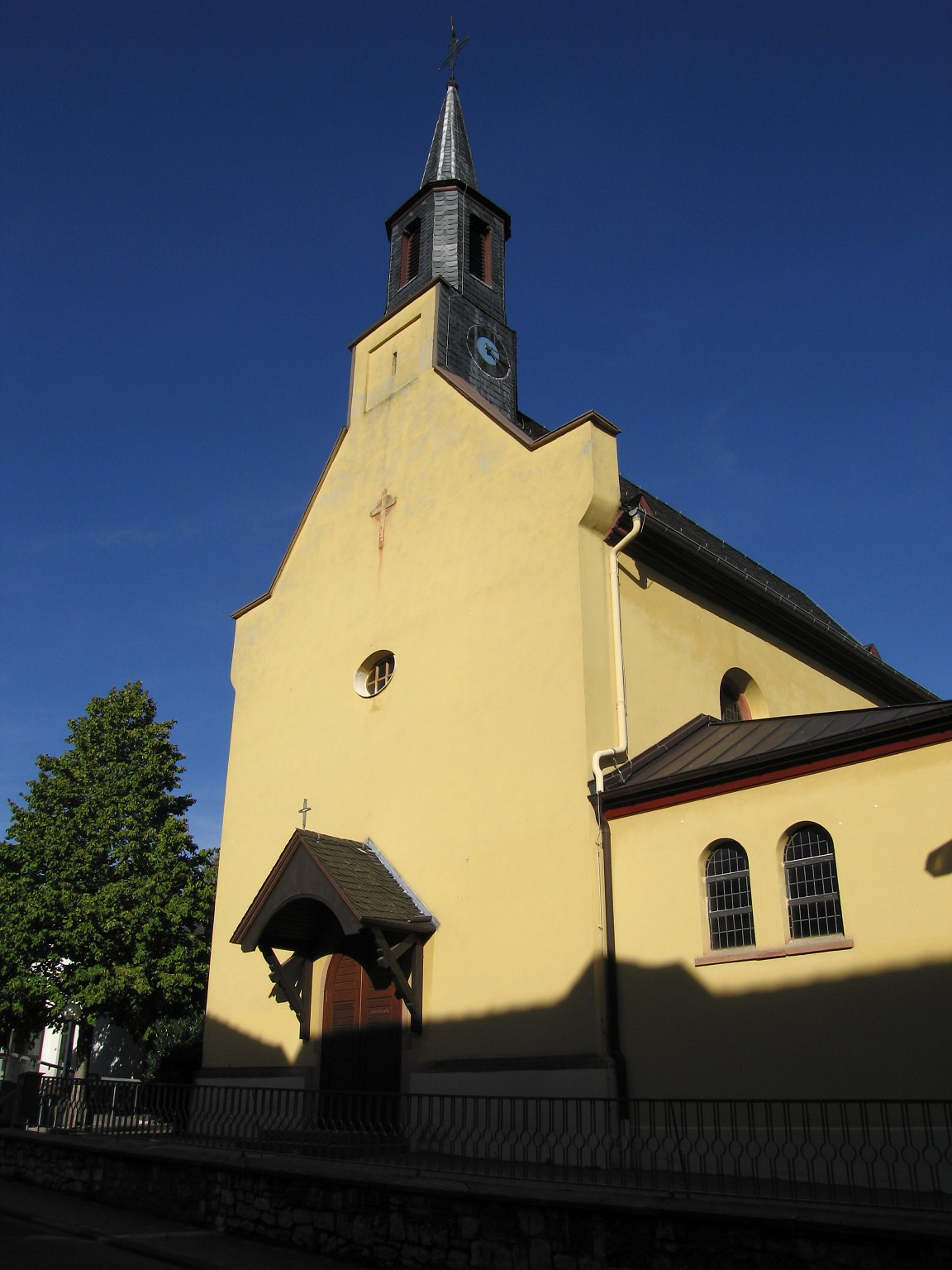 Catholic church "Maria Königin", Mainz-Drais, Germany.